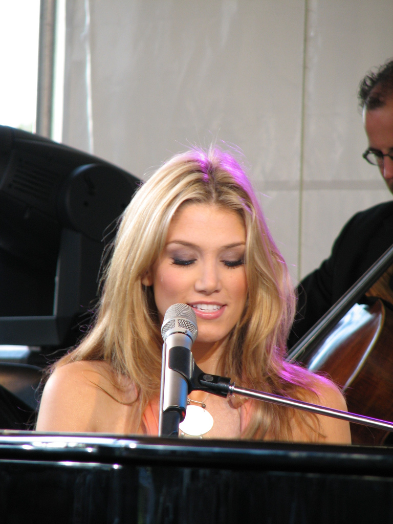 Delta Goodrem | Fed Square, Melbourne | 27th November 2007